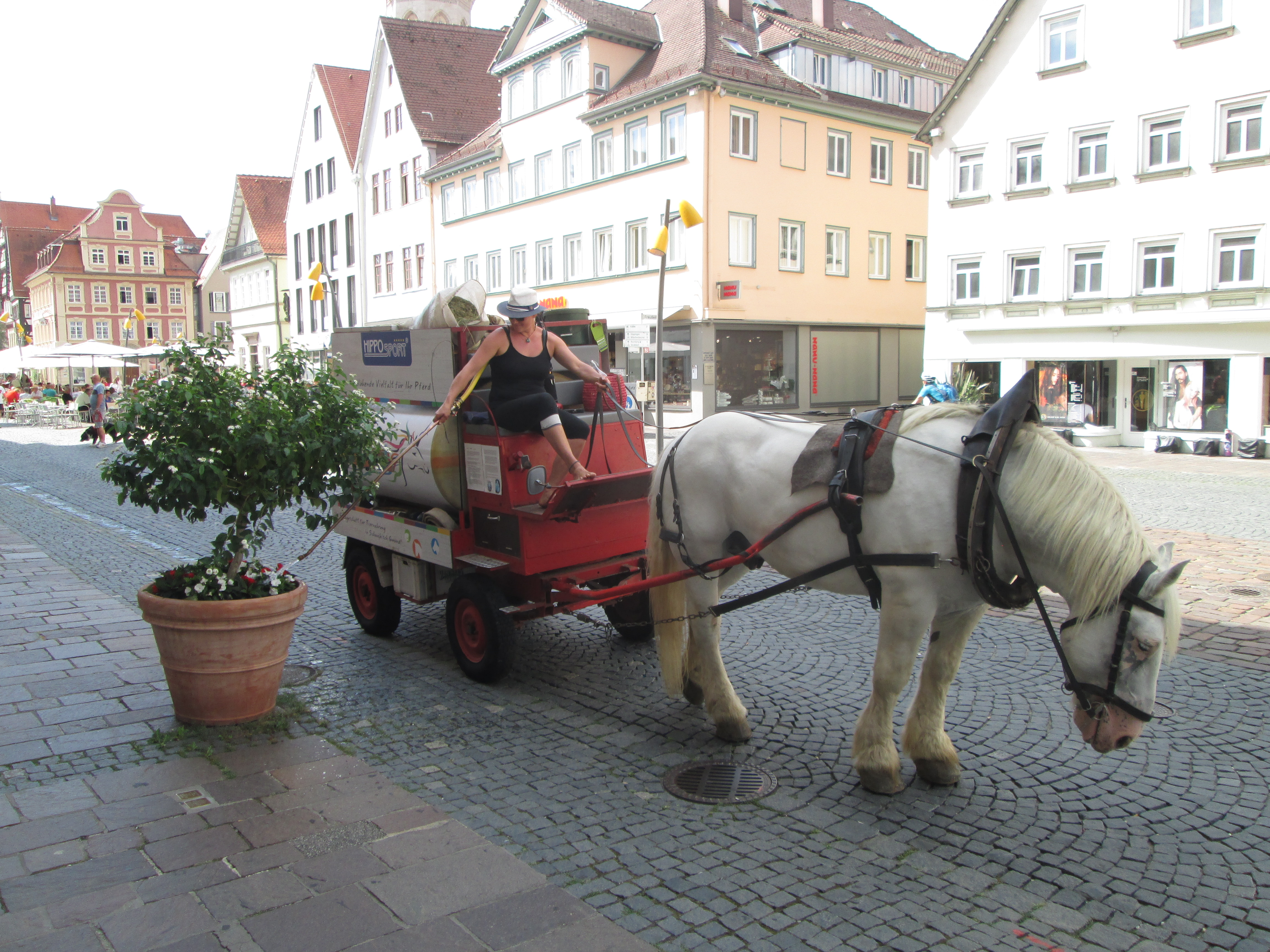 Horse wagon with water tank used for watering the city's plants in Schwäbisch Gmünd, 2018